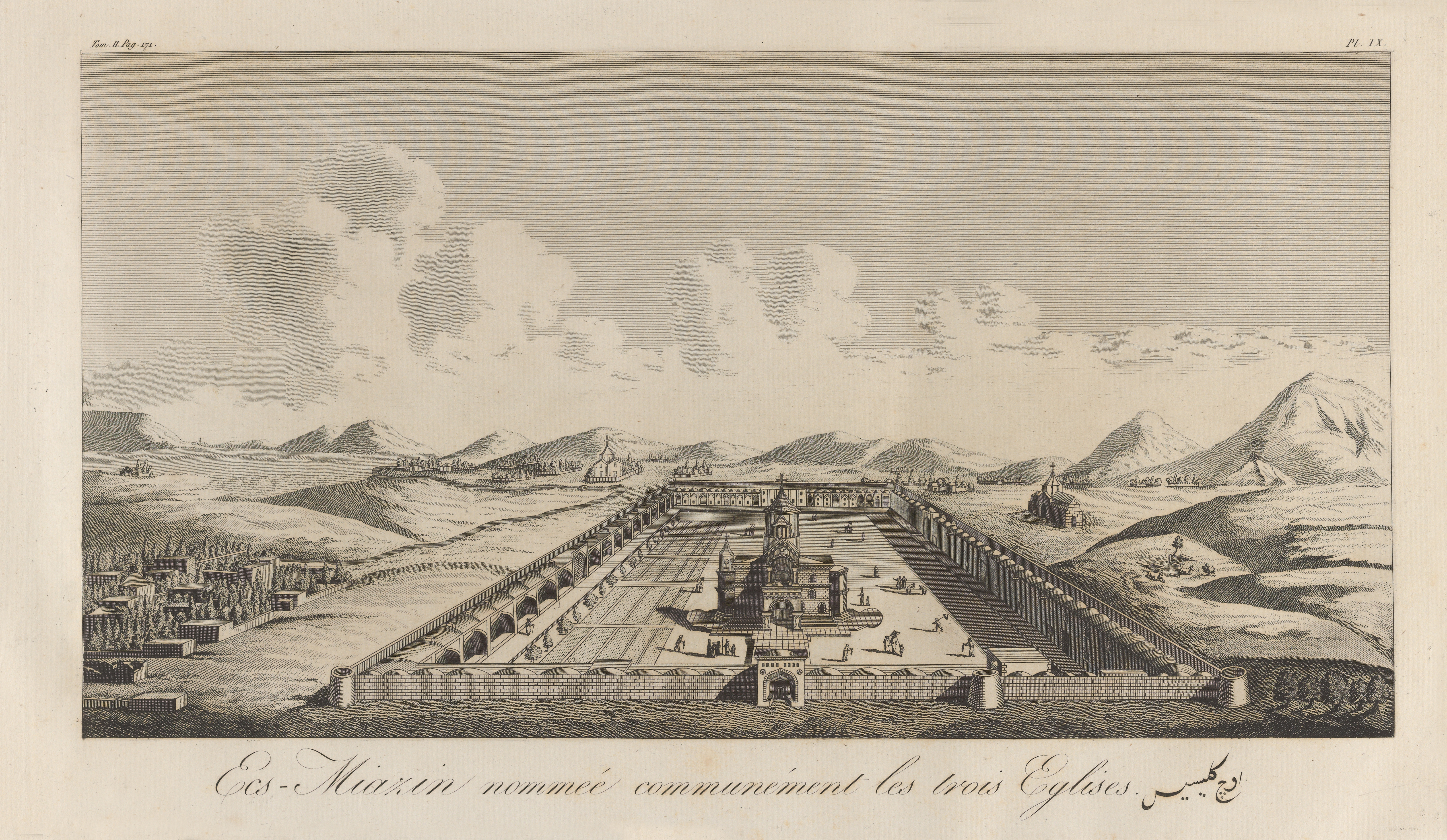 The Etchmiadzin Cathedral and the surrounding according to French traveler Jean Chardin